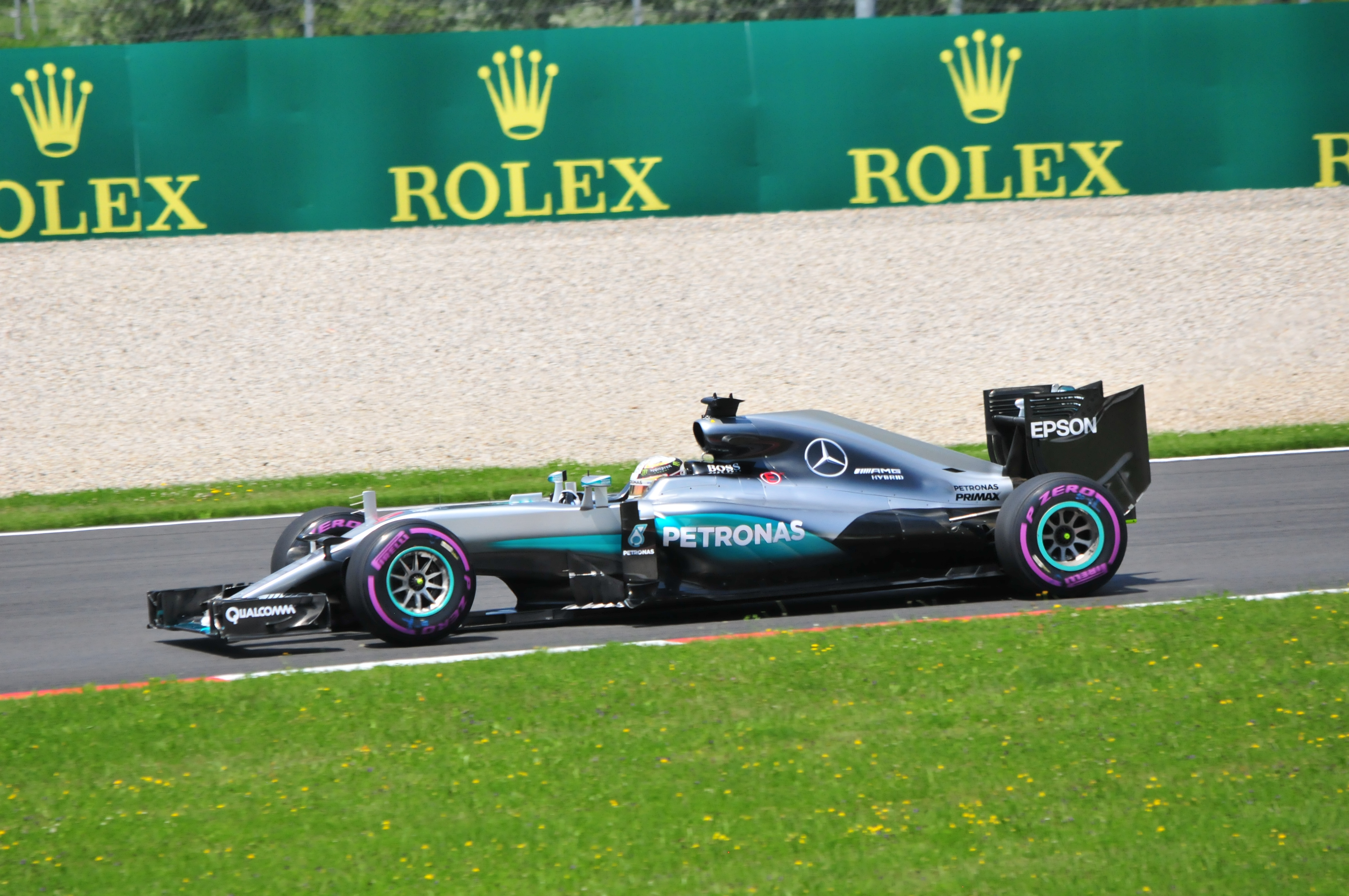 Lewis Hamilton at the 2016 Austrian Grand Prix